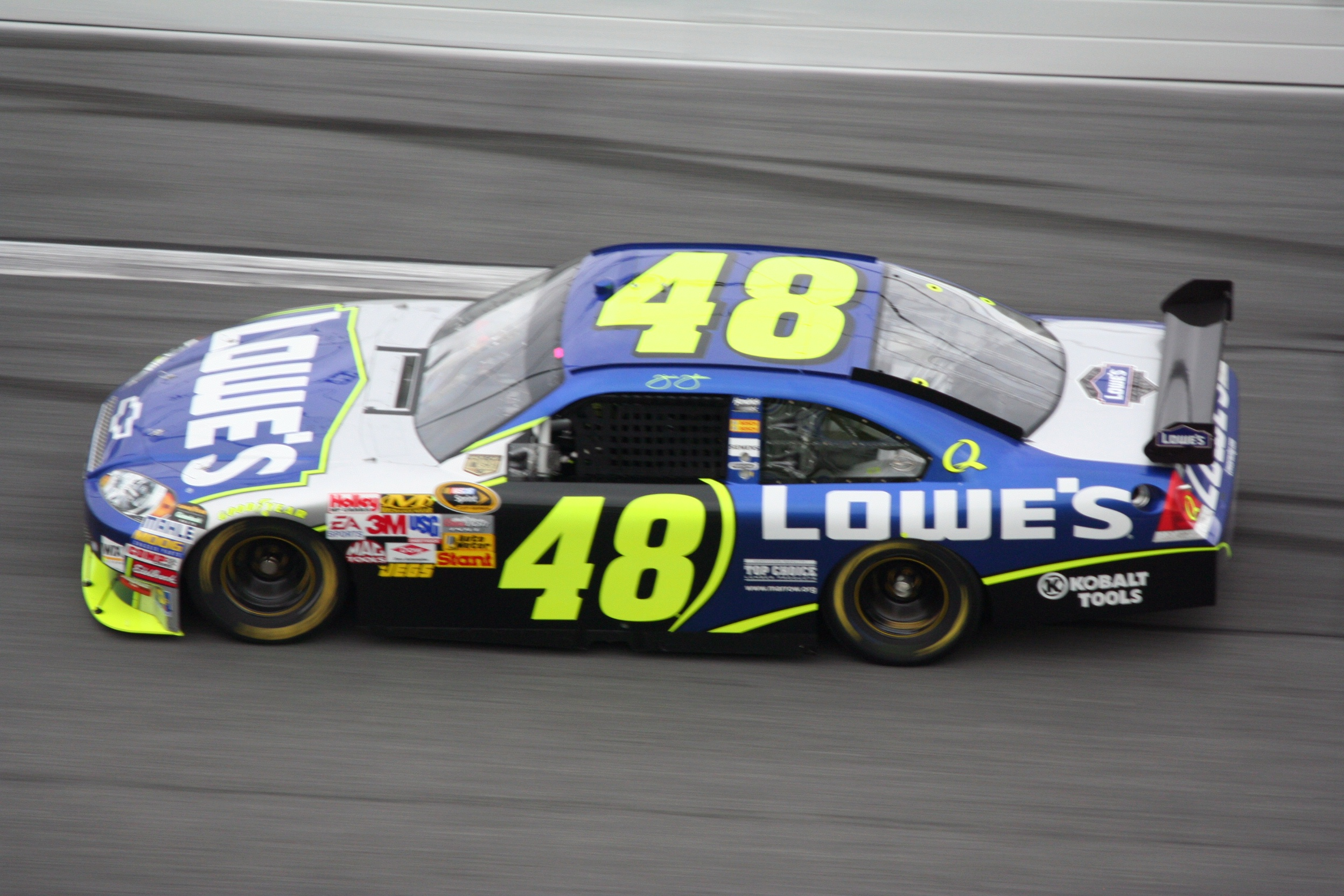 Shot by The Daredevil at Daytona during Speedweeks 2008Jimmie Johnson Lowe's Chevy Impala